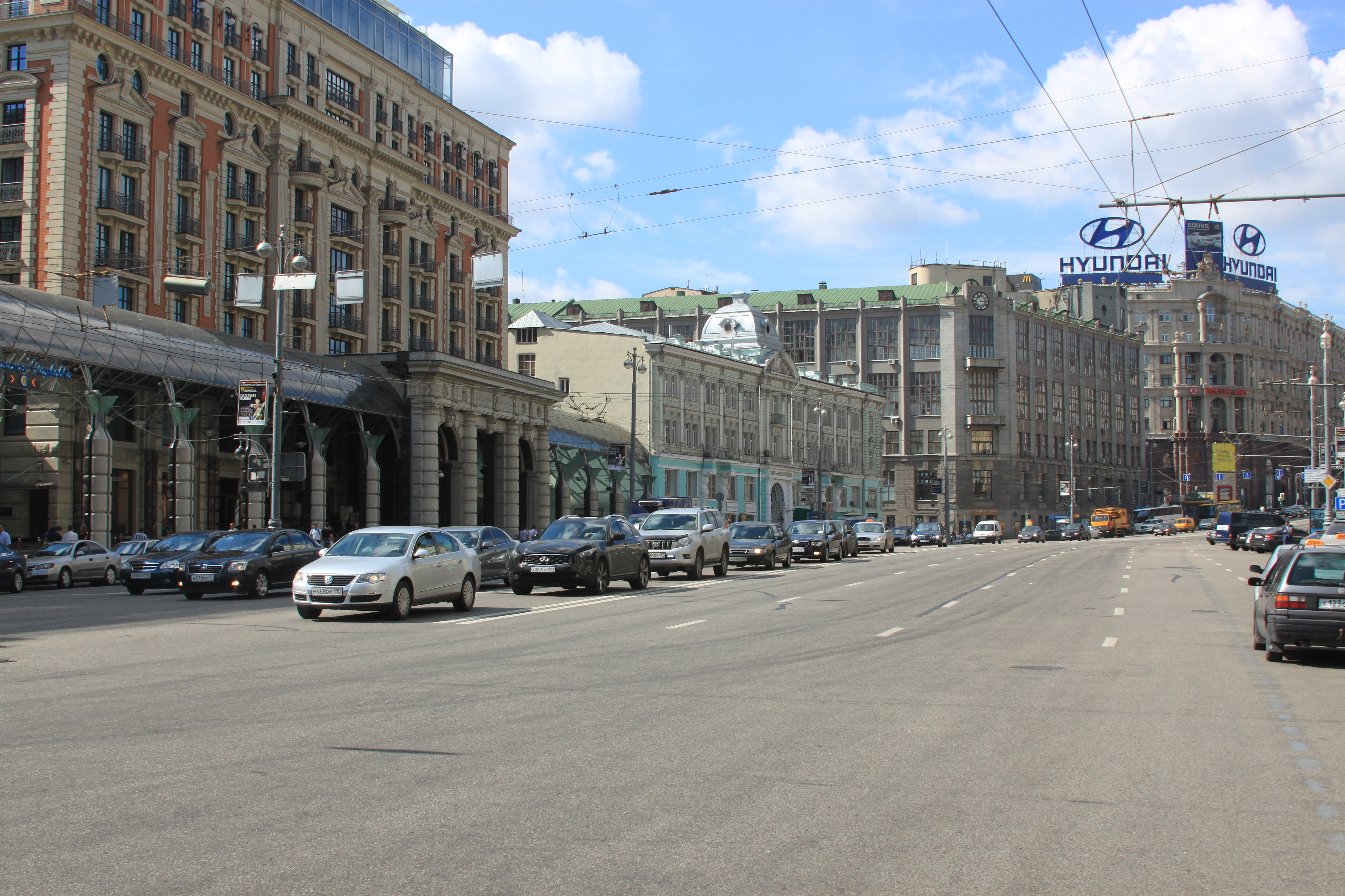 Russia, Moscow, Tverskaya street, Hotel National, Россия, Москва, улица Тверская, Гостиница «Националь»